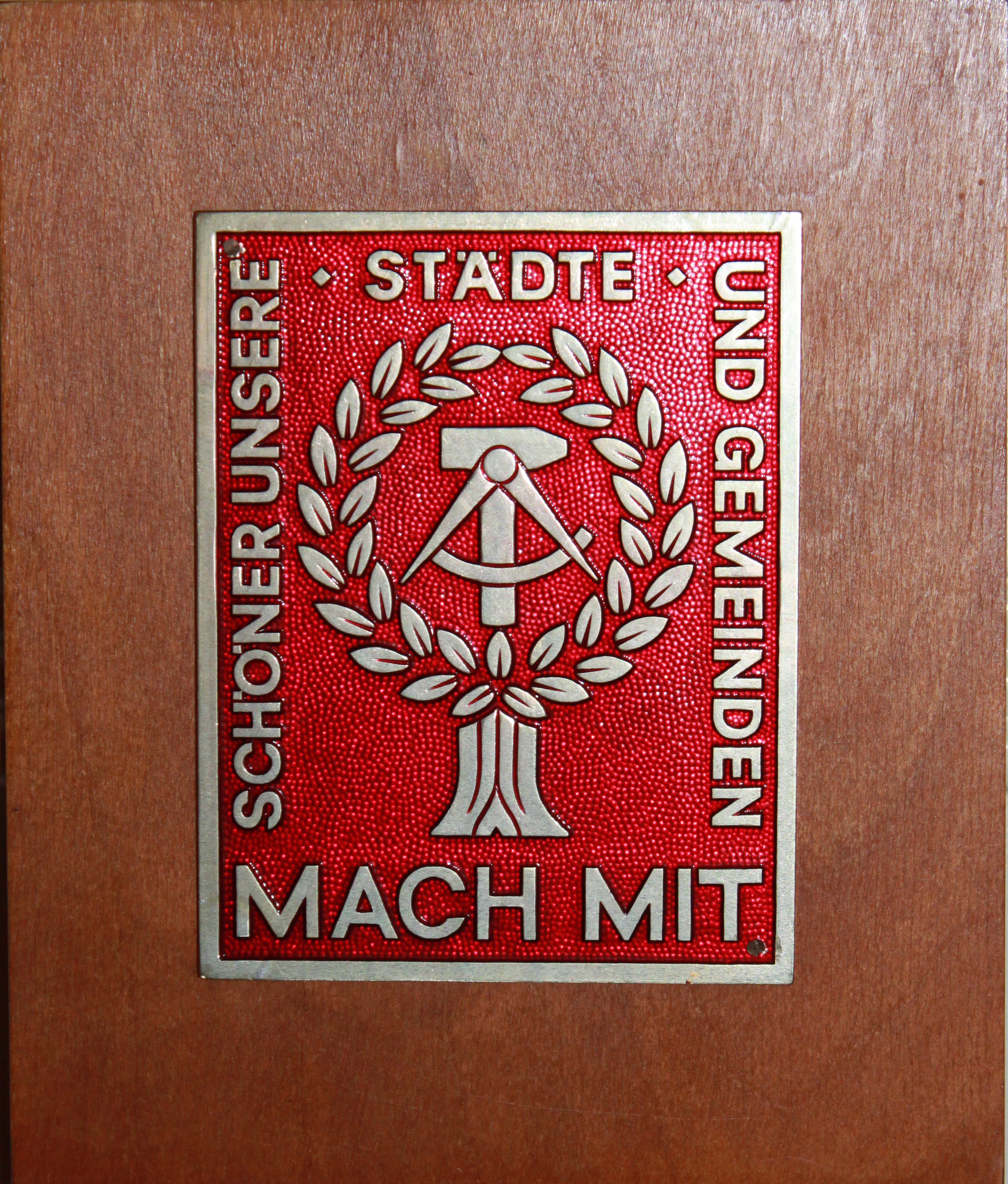 "Schöner unsere Städte und Gemeinden - Mach mit!"